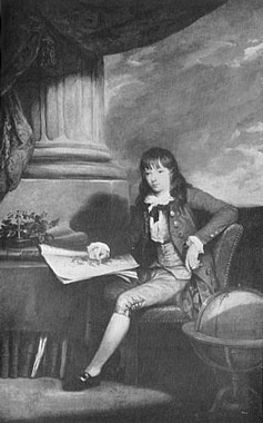 Joseph Banks, 1757, Artist unknown